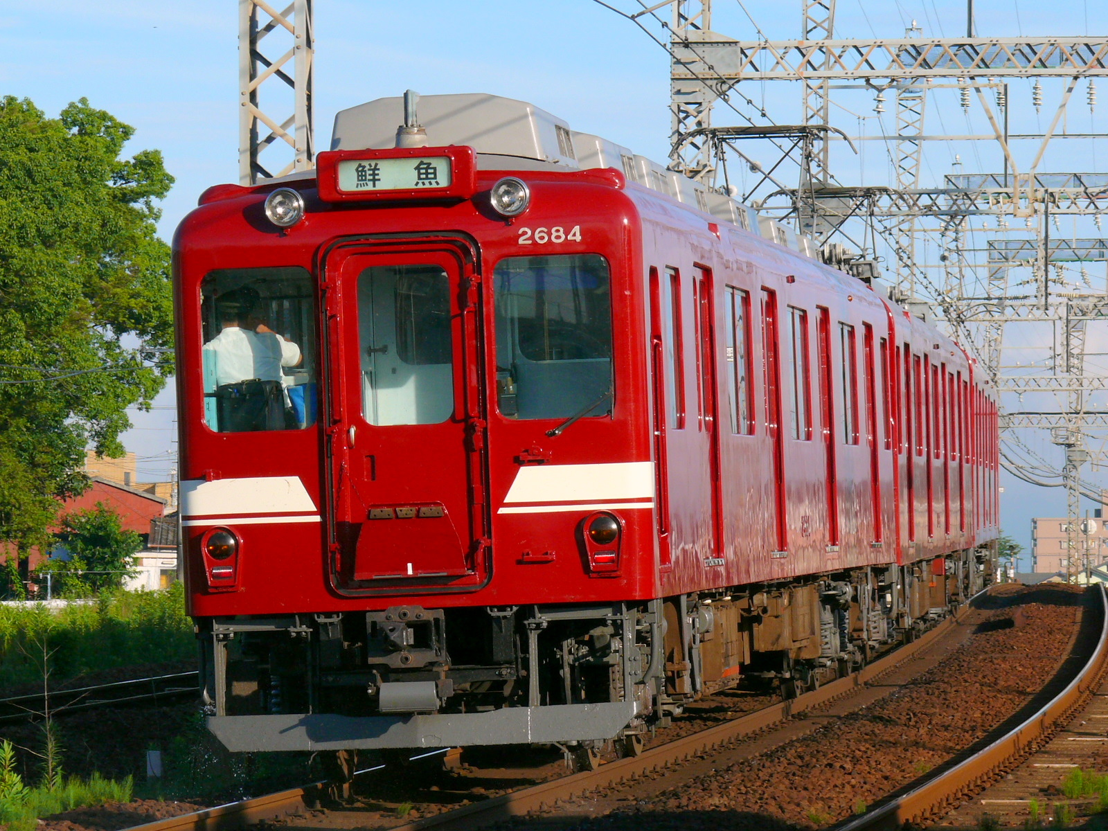 Kintetsu Sengyo Train. (Japan)